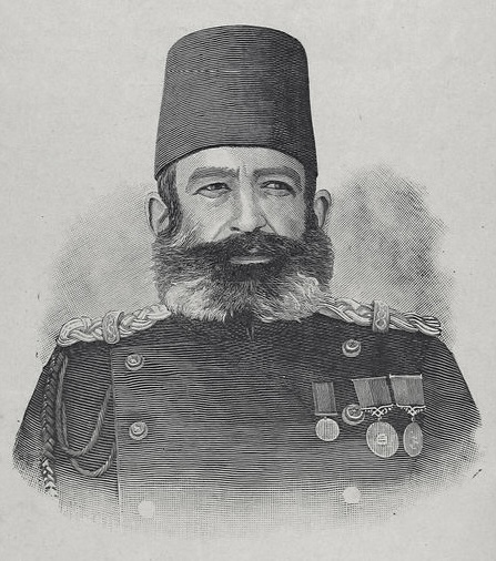 Edhem Pasha (1851-1909) Ottoman general